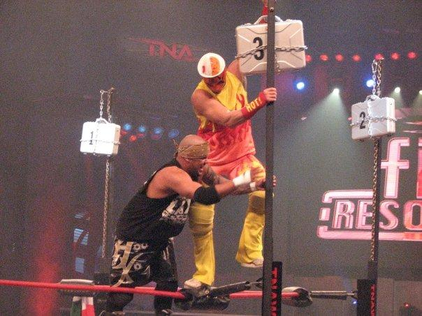 A picture of Curry Man and Homicide in the Feast or Fired match from Final Resolution 2008